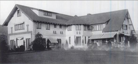 The front of the mock-Tudor designed six bedroom house. Contained a screening room, glassed-in sun porch, bowling alley, and billiard room.